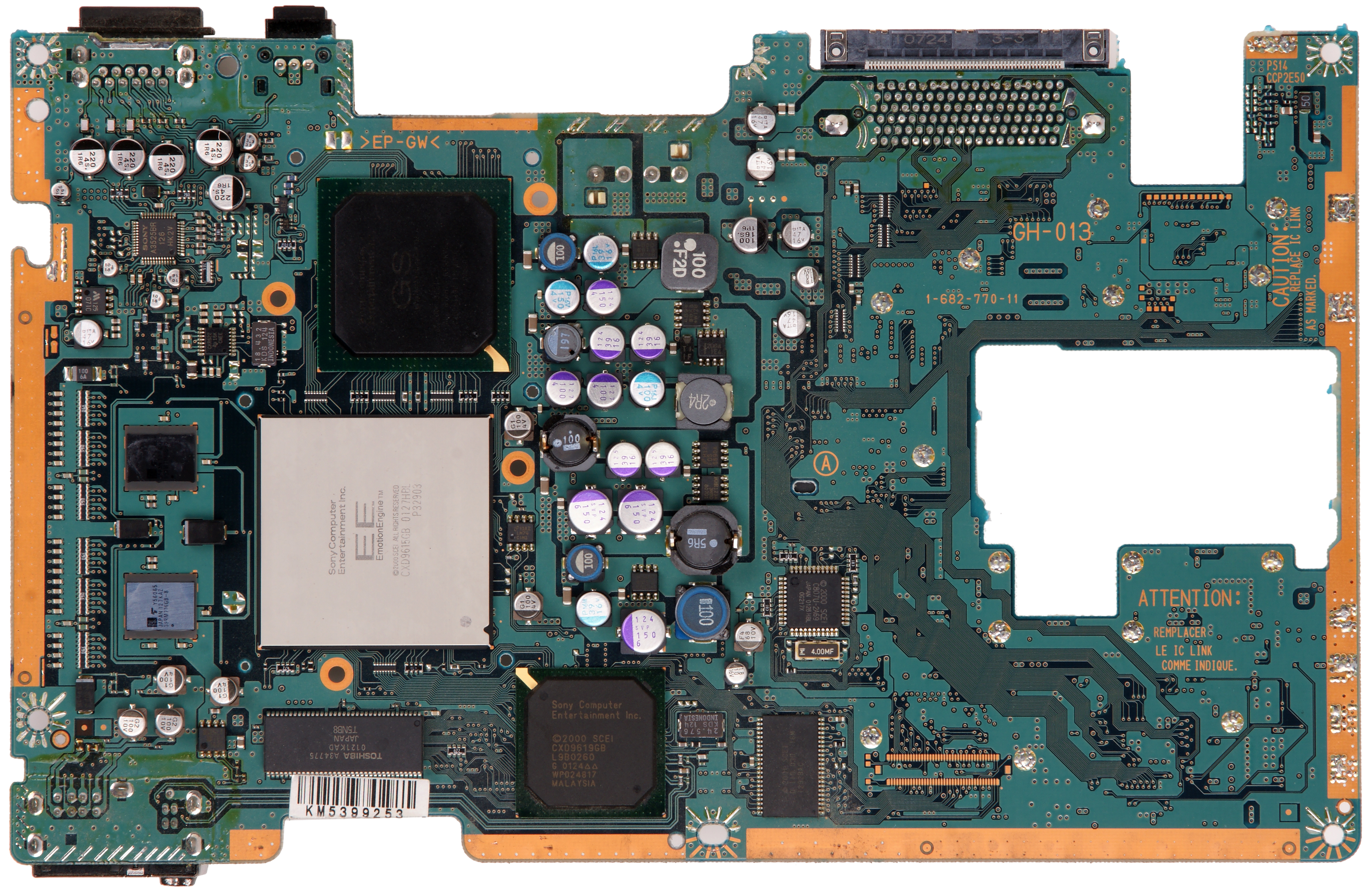 The motherboard to a Sony PS2 SCPH-30001, showing both the Emotion Engine and Graphics Synthesizer chips.